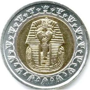 Egyptian coin 1 pound face.